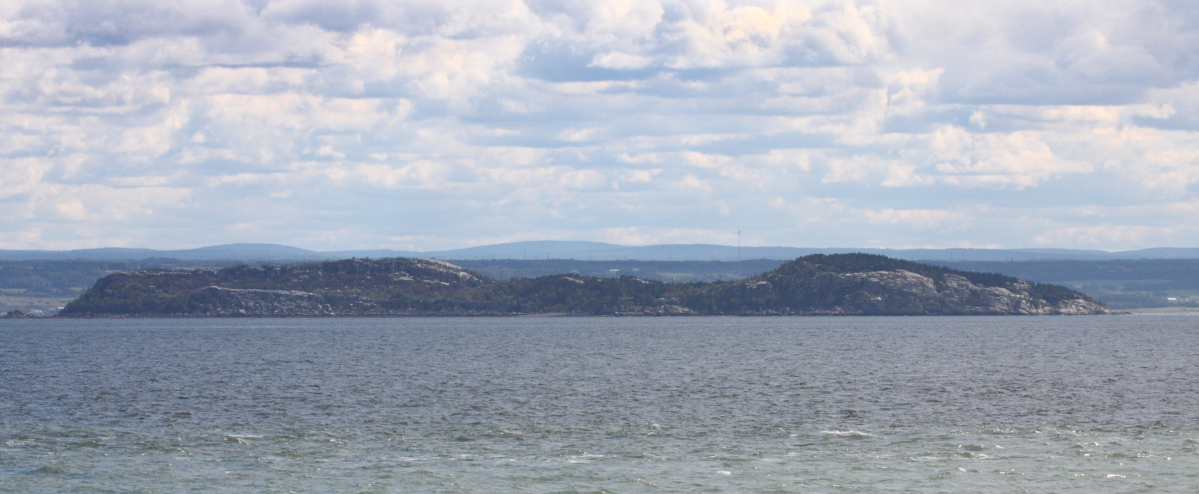 Gros Pèlerin island, of Archipel Les Pèlerins on Saint Lawrence River, Quebec, Canada